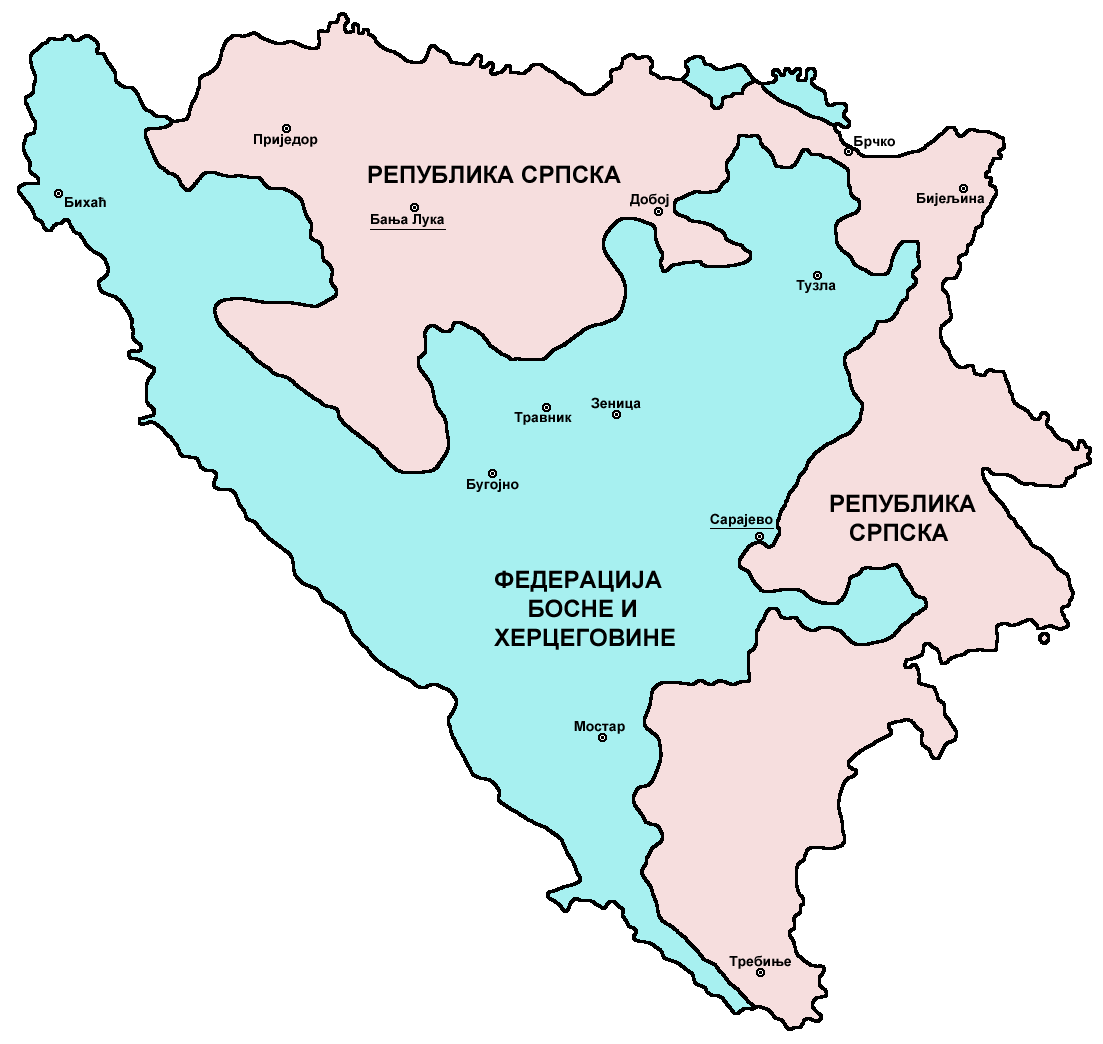 Political division of Bosnia and Herzegovina in 1995, after Dayton Agreement.